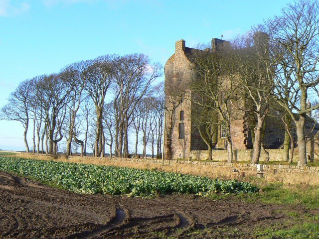 Balcomie Castle In winter with the trees bare, it is easier to see more of this 16th century castle where Mary of Guise was welcomed in June 1538 when she landed in Scotland at Fife Ness on her way to marry King James V at St Andrews.